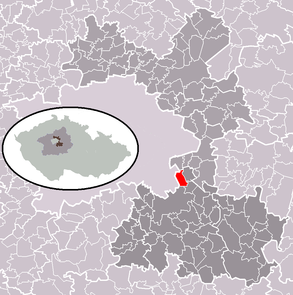 Location of Křenice municipality within Prague-East District and administrative area of Říčany as a Municipality with Extended Competence.